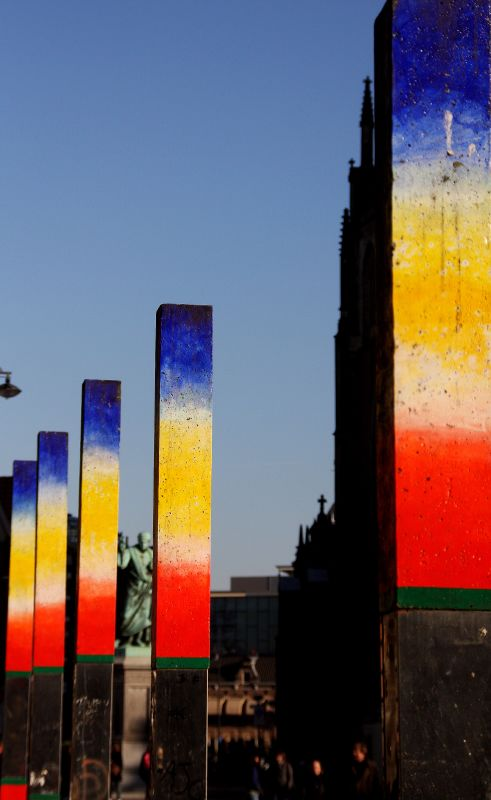 Work of Art in front of McDonalds on the Grote Markt in Haarlem, Netherlands - name: Palen van Haarlem, artist: Roger Raveel, date: 2004, in 2013 verwijderd voor onderhoud. Komt waarschijnlijk niet meer terug.